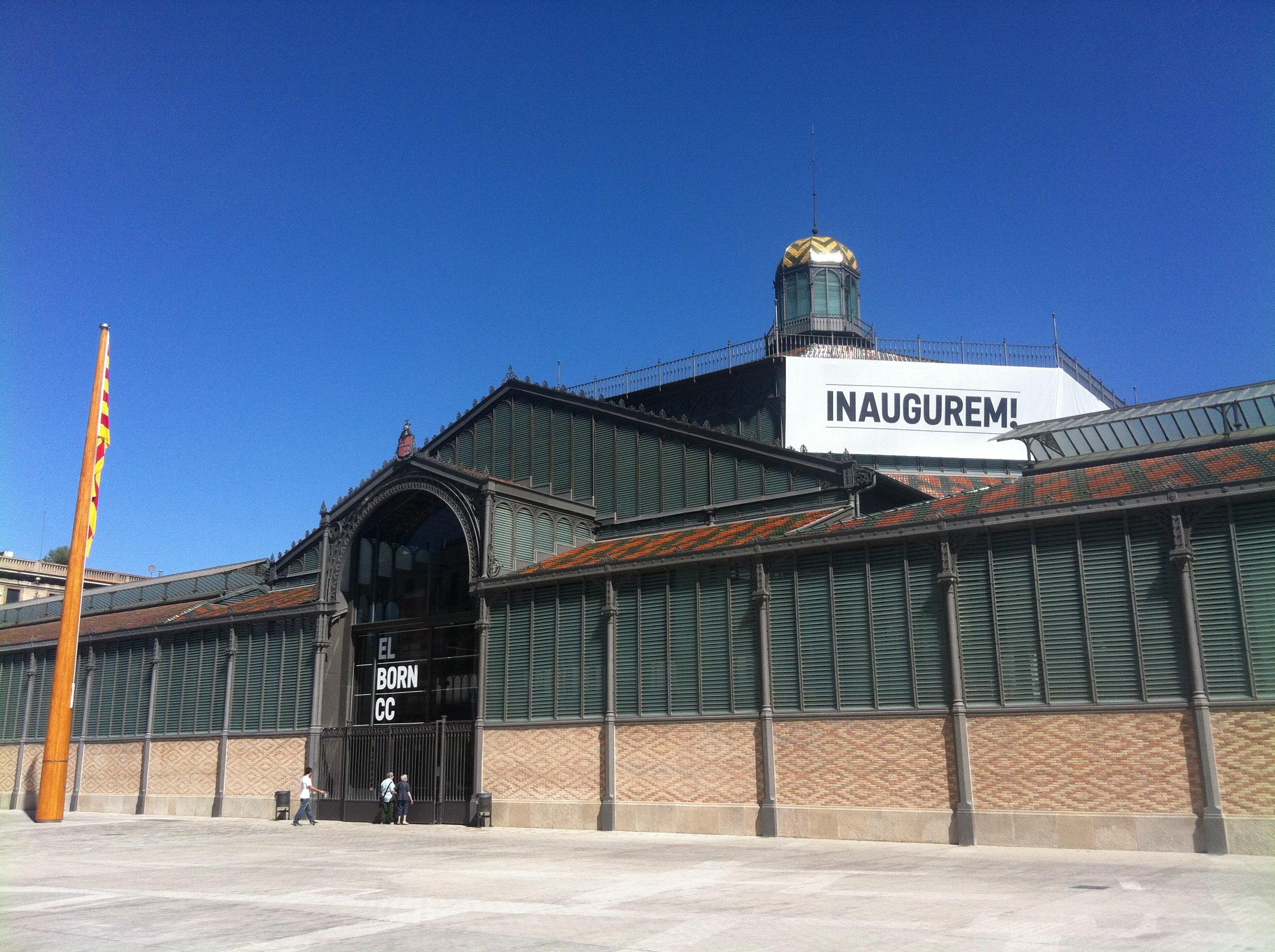 El BornCC, el born cultural center, in September 2013